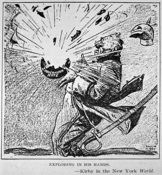 "Exploding in his hands" - a political cartoon about the Zimmerman Telegram